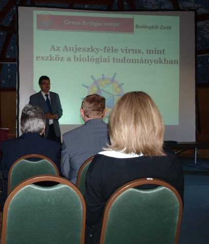 Aujeszky-emlékérem átadása, Boldogkői Zsolt előadása (Keszthely, Helikon Hotel)